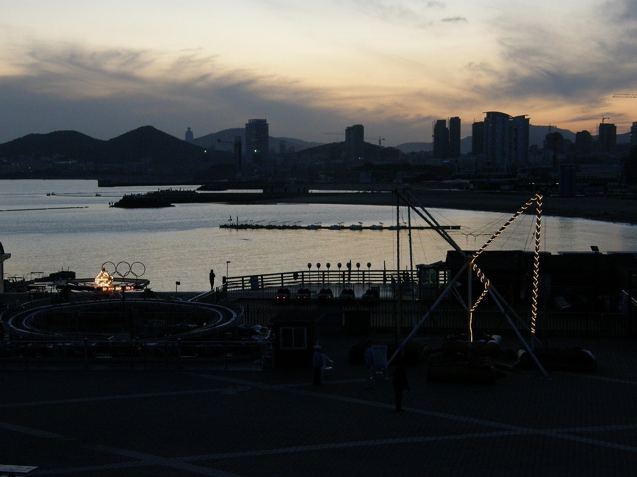 Xinghai Square From Wikipedia, the free encyclopedia Jump to: navigation, search the musical fountain in Xinghai SquareXinghai Square, or Xinghai Plaza (Chinese: 星海广场; Pinyin: Xīnghăi Guăngchăng), is a city square in Dalian, China. It is located to the north of Xinghai Bay. Its total area is 45,000 m². Its name literally means "the Sea of Stars". Xinghai Square was built in 1994. Its center looks like a star, with two White Marble Cloud Pillars (华表), and 9 giant dings. For 10 days in late July-early August, Xinghai Square holds the annual International Beer Festival.